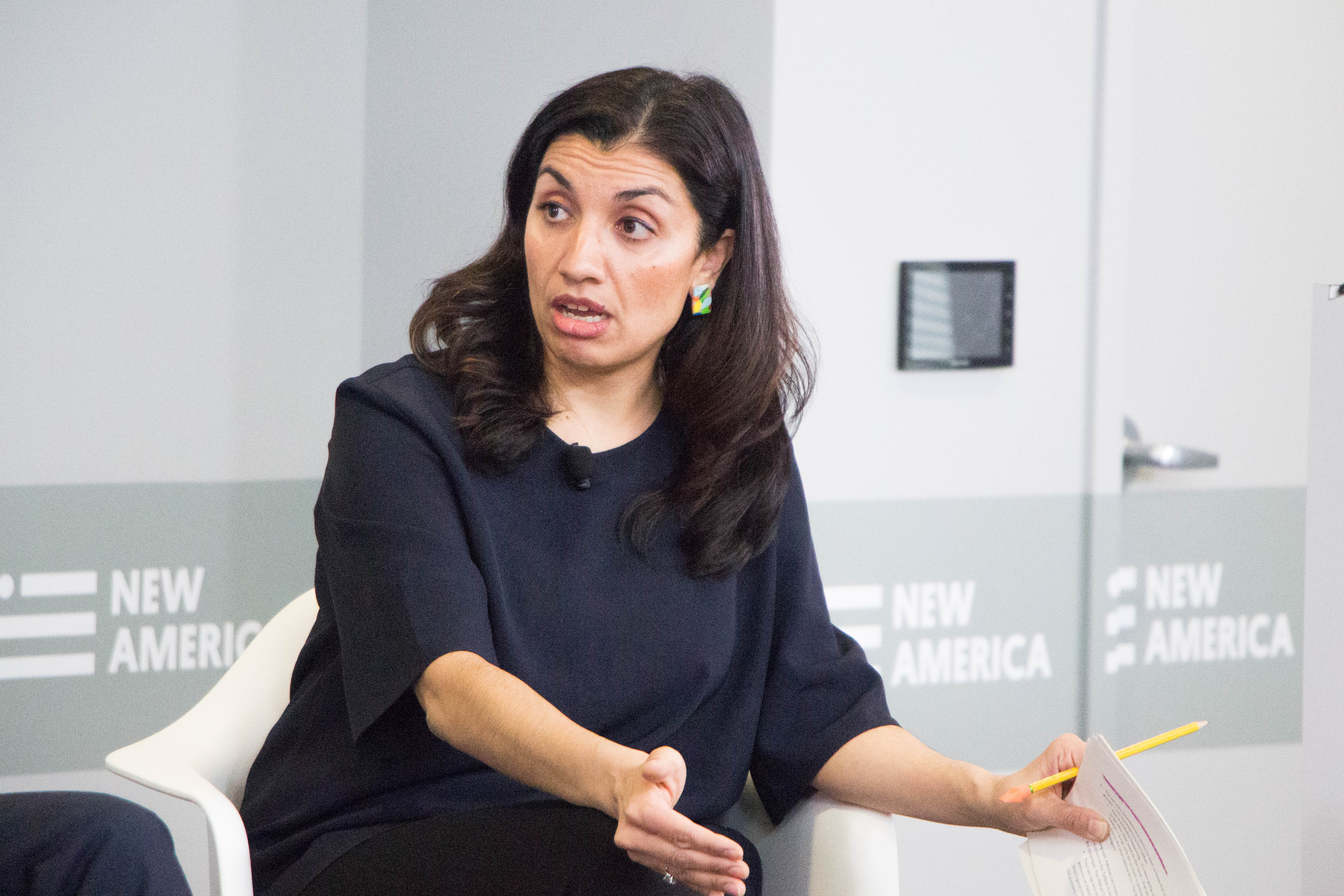 Shamila Chaudhary, Senior South Asia Fellow, New America's International Security Program Former Director for Afghanistan and Pakistan, National Security Council